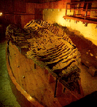 the oldest shipwreck loacted in kyrenia